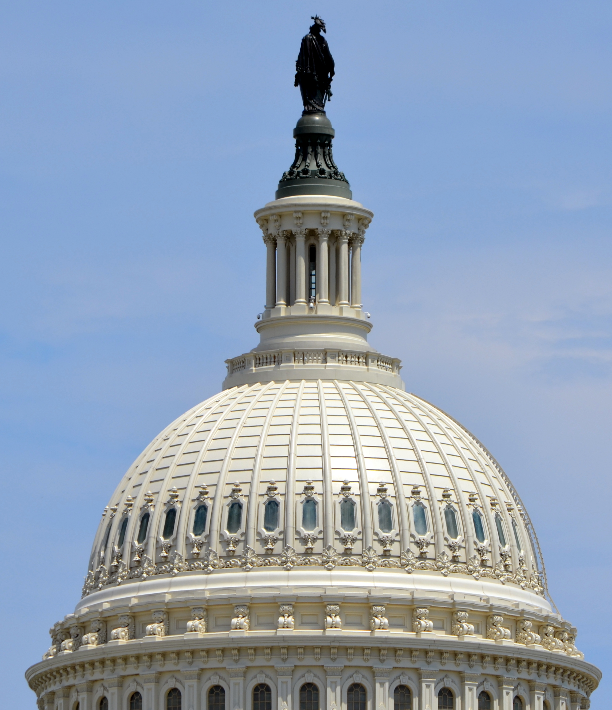 United States Capitol: detail of dome as see from the west.